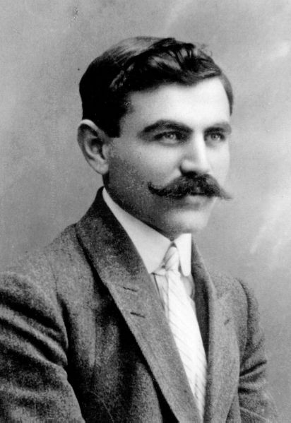 Naaman Belkind